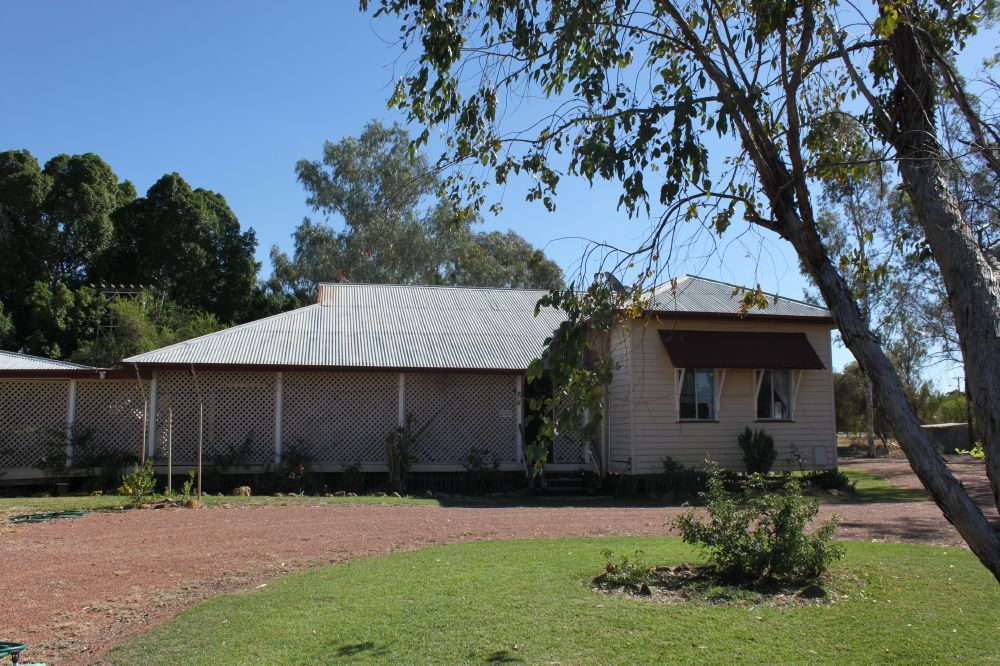 Isisford District Hospital (former) (2014)